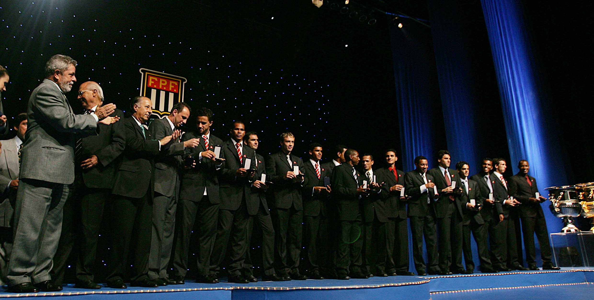 president Lula honors the players of São Paulo Futebol Clube, winners of the FIFA Club World Cup in 2005. From left to right: Lula (president of Brazil), Marcelo Portugal Gouvêia (president), Marco Polo del Nero (president of FPF), Rogério Ceni, Alex Bruno, Aloísio, Danilo, Lugano, Breno, Edcarlos (behind), Mineiro, Souza, Fábio Santos, Júnior, Bosco, Josué, Richarlyson, Thiago Ribeiro and Fabão.